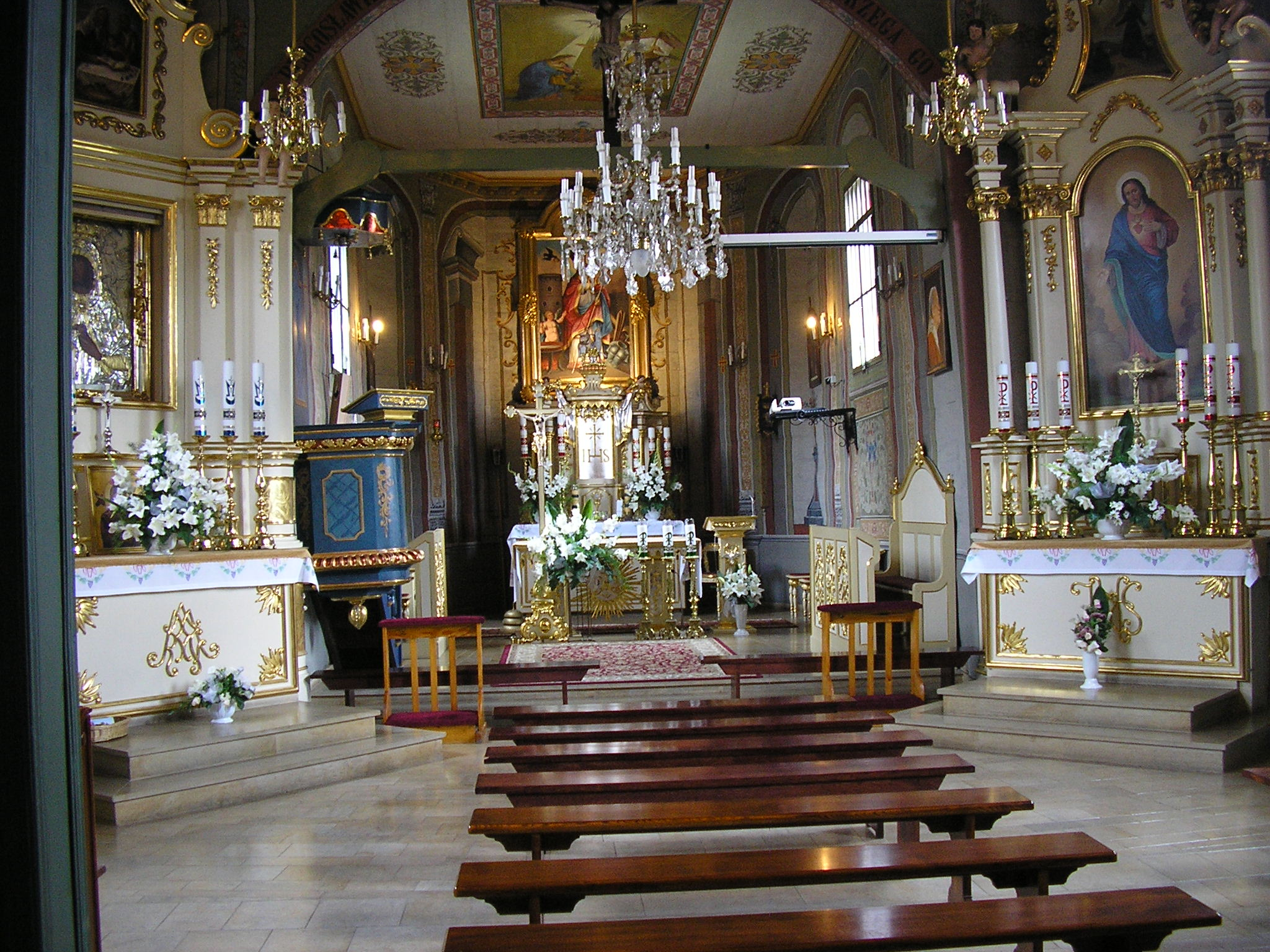 Interior of church of St. Erasmus of Formiae in Barwald Dolny.